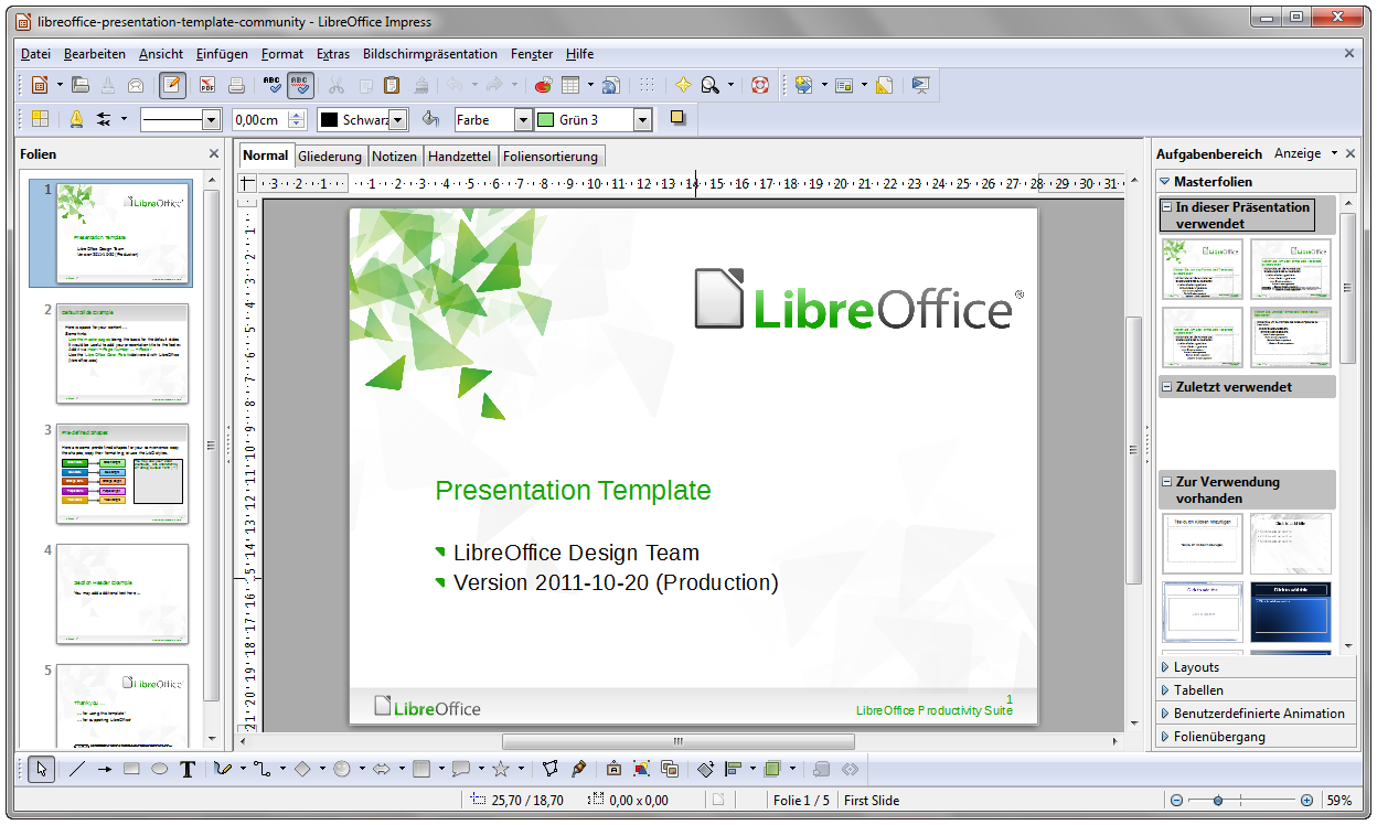 LibreOffice 3.5.2 Impress (German) under Microsoft Windows 7 - shows the "LibreOffice Presentation Template provided by the LibreOffice Design Team for the Community".